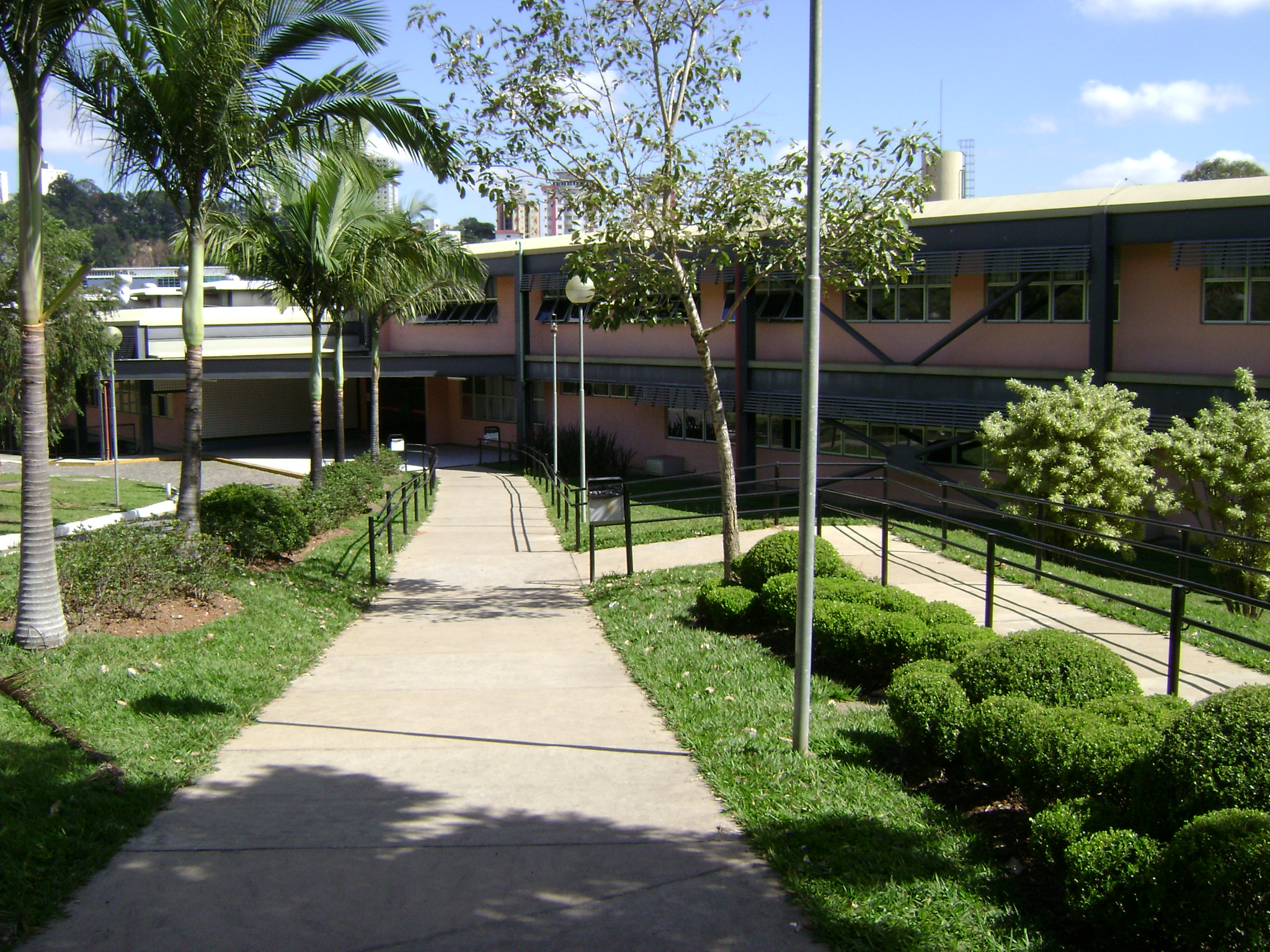 Uma das entradas da Faculdade de Odontologia.